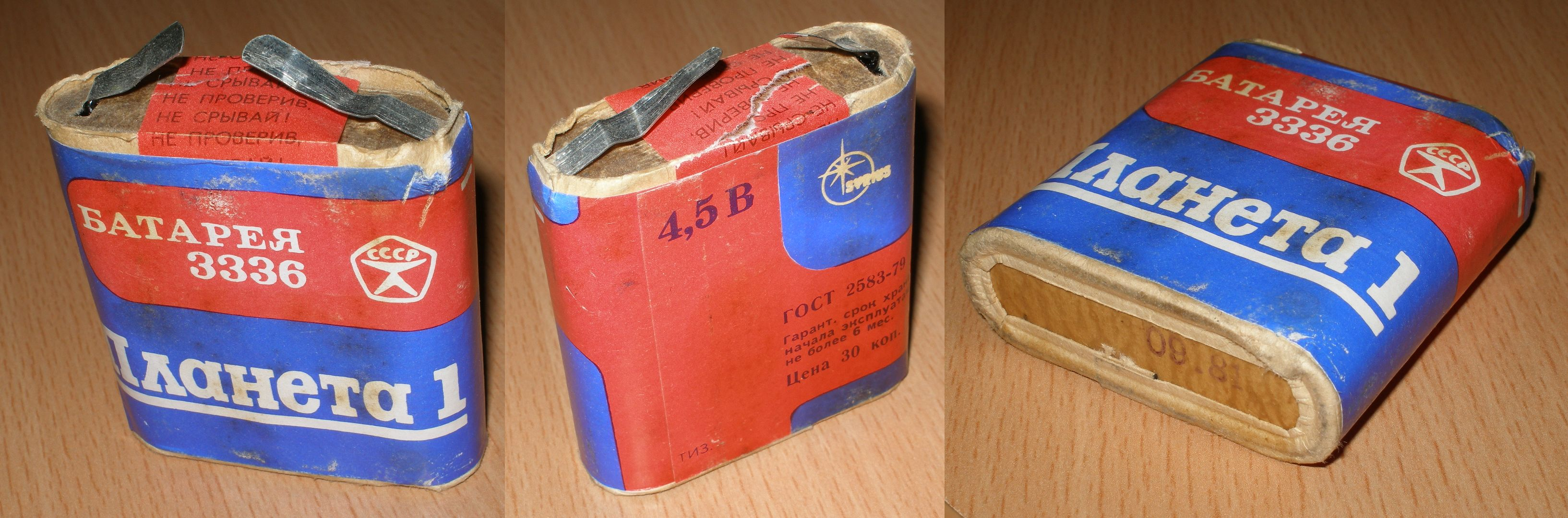 Battery type 3336. 4,5 V. Manufactured in USSR, 1981. This picture shows them in old and leaking condition.